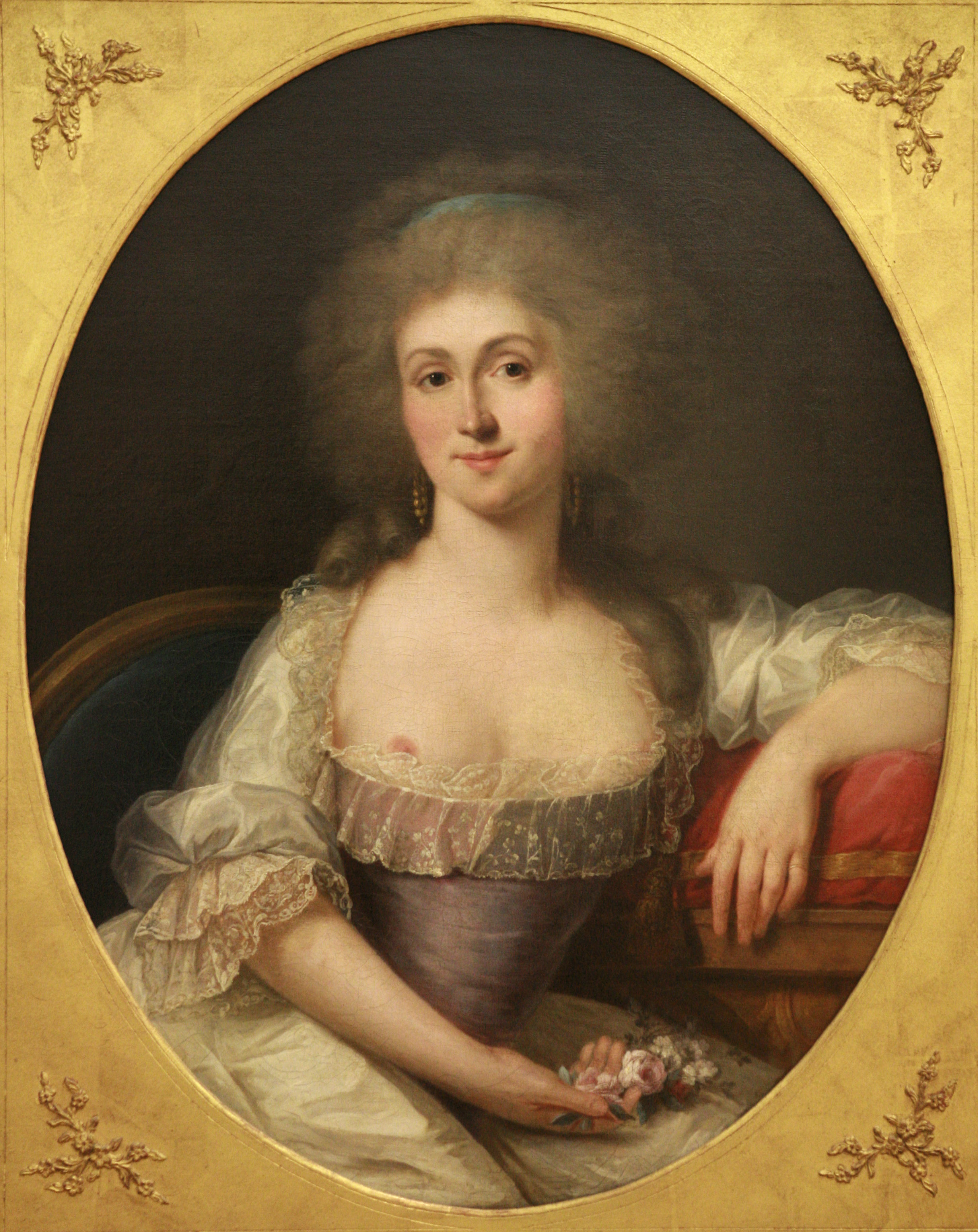 Marie-Louise, princesse de Lamballe (1749-1792)